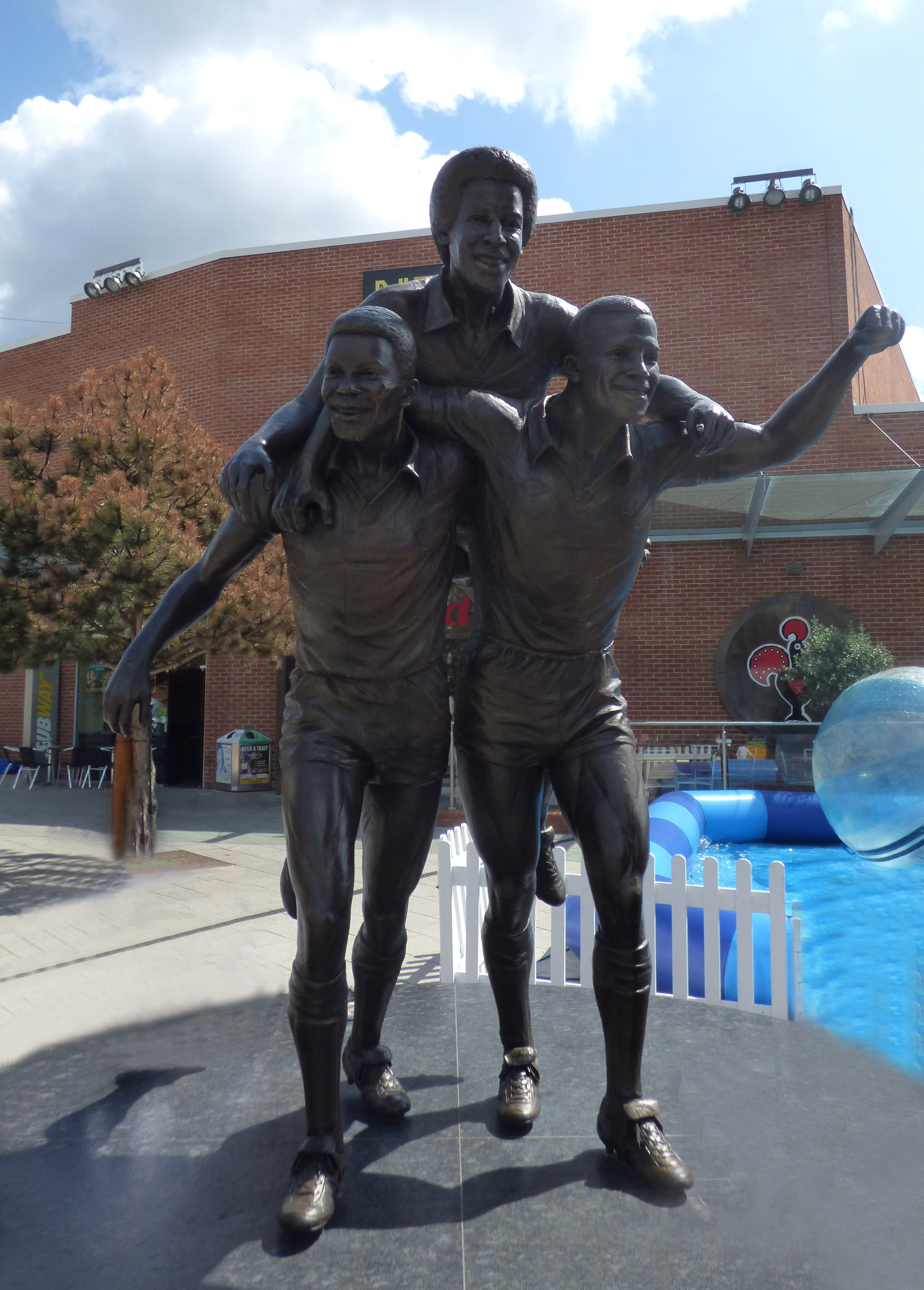 Headed to West Bromwich again, this time to see the new statue of The Three Degrees, three famous Black British Caribbean football players of West Bromwich Albion. The Celebration: Brendon Batson, Laurie Cummingham and Cyrille Regis. It was sculpted in bronze by Graham Ibbeson and unveiled in May 2019. I popped along in the late summer.